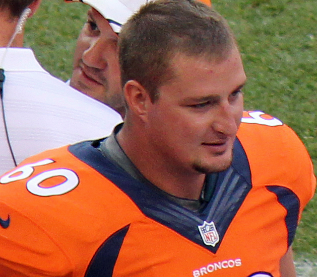 Cody Larsen, a player on the National Football League.